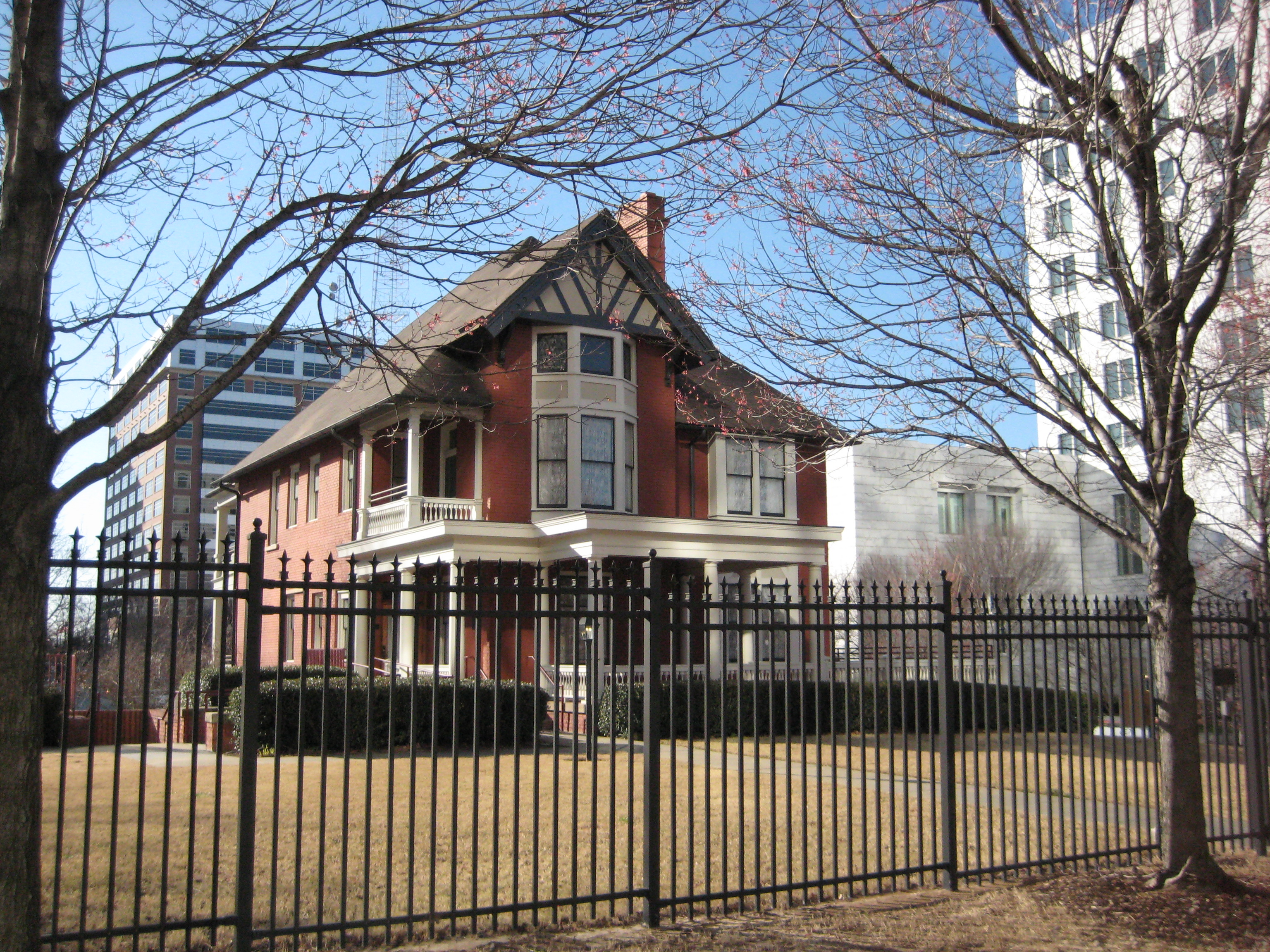 Margaret Mitchell House and Museum — Historic house museum in Midtown Atlanta, Georgia. While living here, Margaret Mitchell wrote the bulk of her Pulitzer Prize-winning novel, Gone with the Wind.